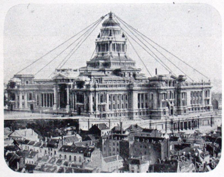 Court House of Brussels, with antennas during the tests of Robert Goldschmidt